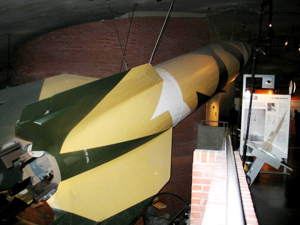 Model V2 rocket in La Coupole